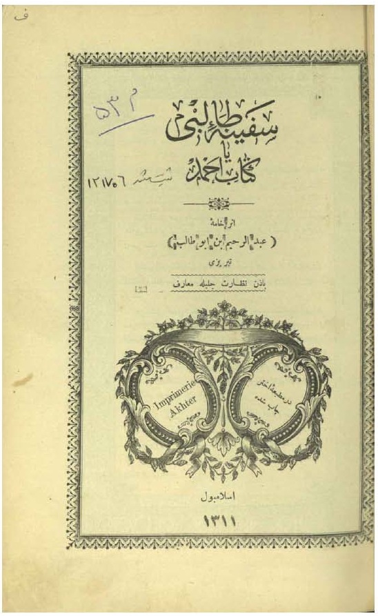 Title page of first edition of Ketab-e Ahmad (1893, Istanbul), written by Mirza Abdul'Rahim Talibov Tabrizi